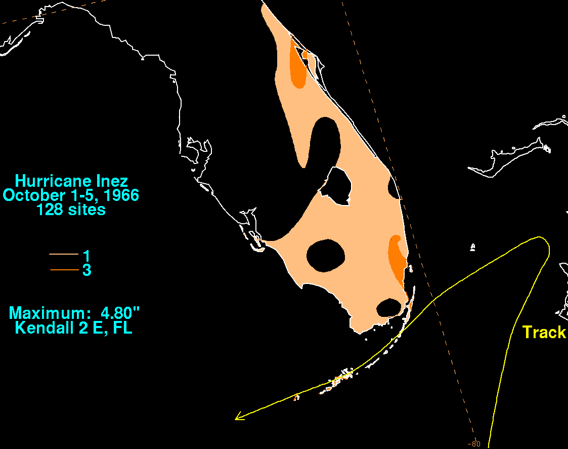 Rainfall produced by Hurricane Inez during October 1966.